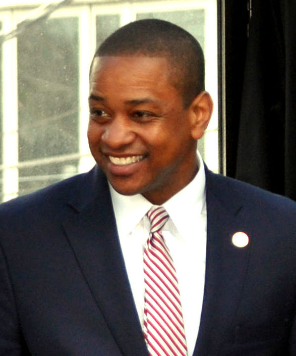 People's Choice 0394